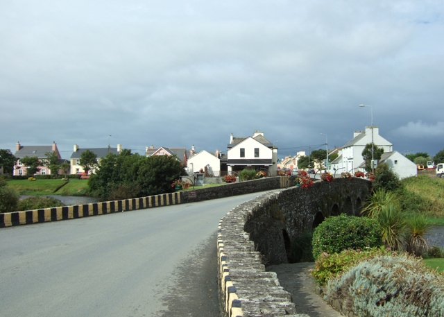 Doonbeg bridge Looking from Station Road towards the heart of the village.